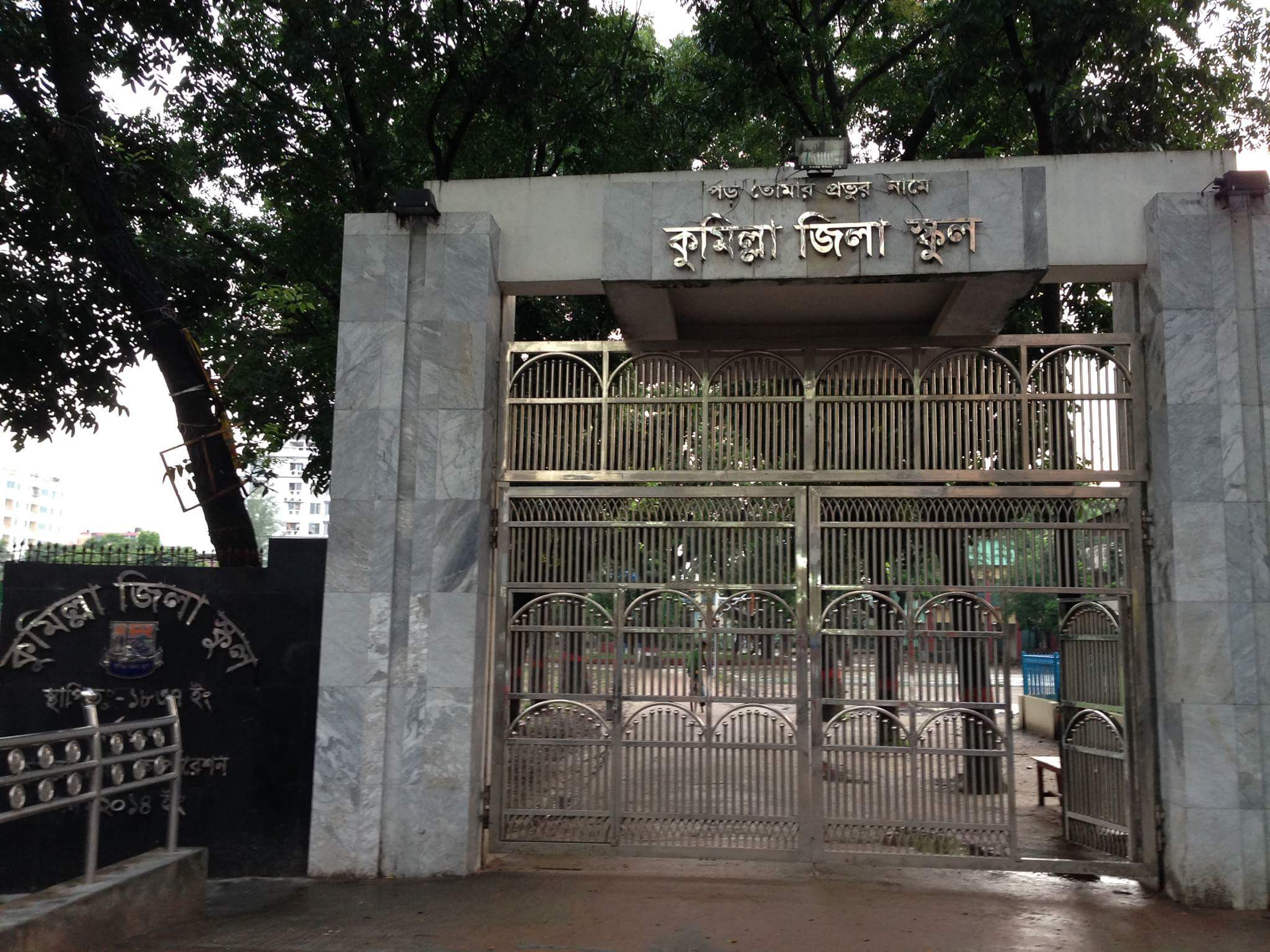 school entrance